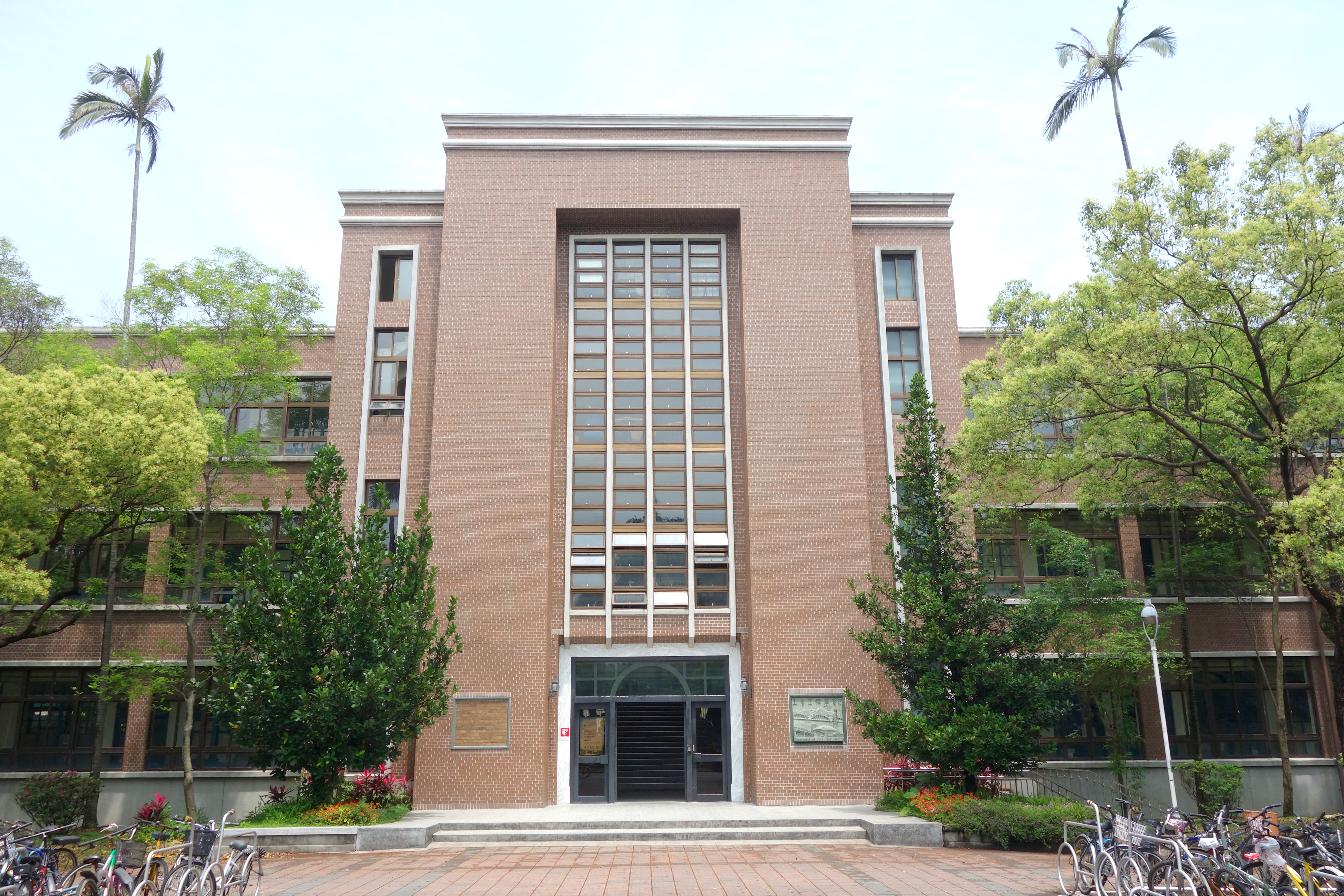 National Taiwan University, Taipei, Taiwan.